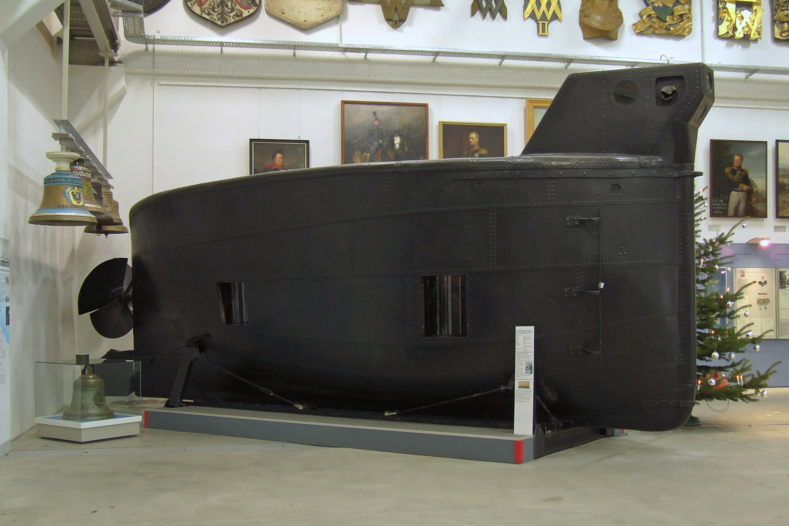 Brandtaucher - one of first submarines. Militärhistorisches Museum der Bundeswehr (Bundeswehr Military History Museum) in Dresden, Germany